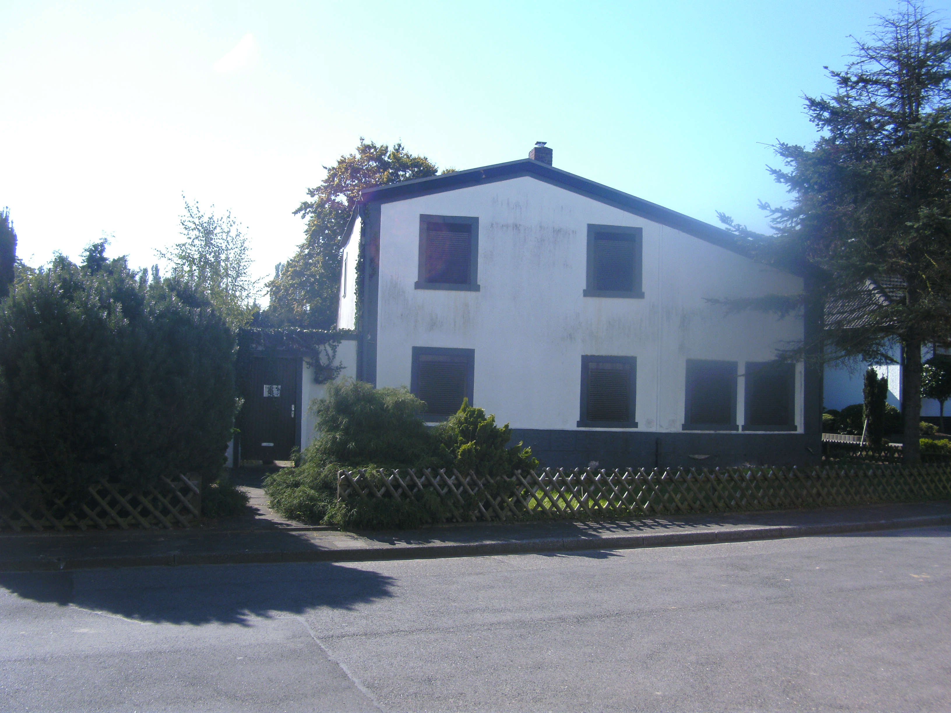 House of birth from Peter Weiand